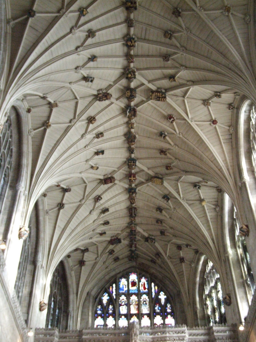 Winchester Cathedral, Winchester, England